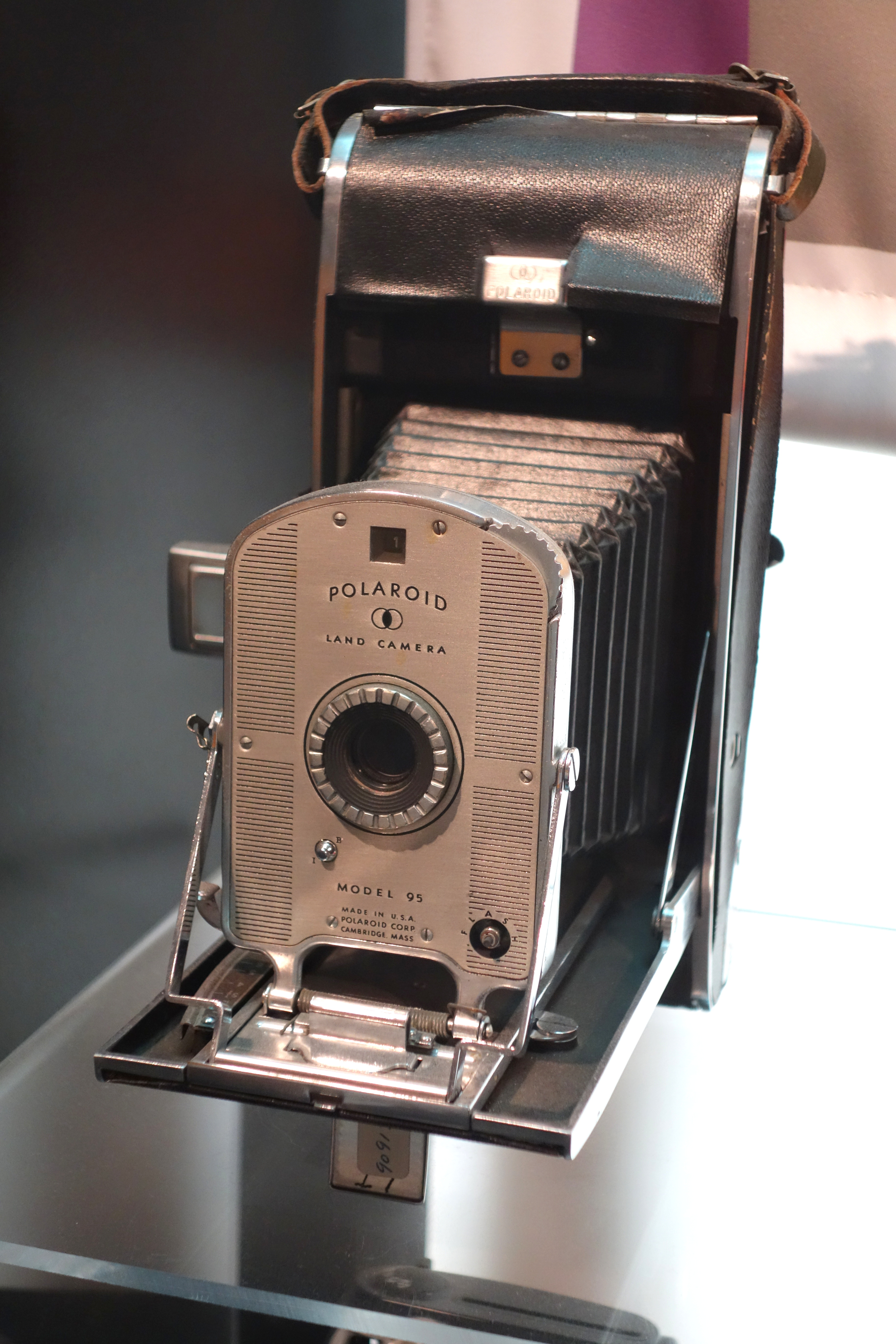 Exhibit in the MIT Museum, MIT, Cambridge, Massachusetts, USA.